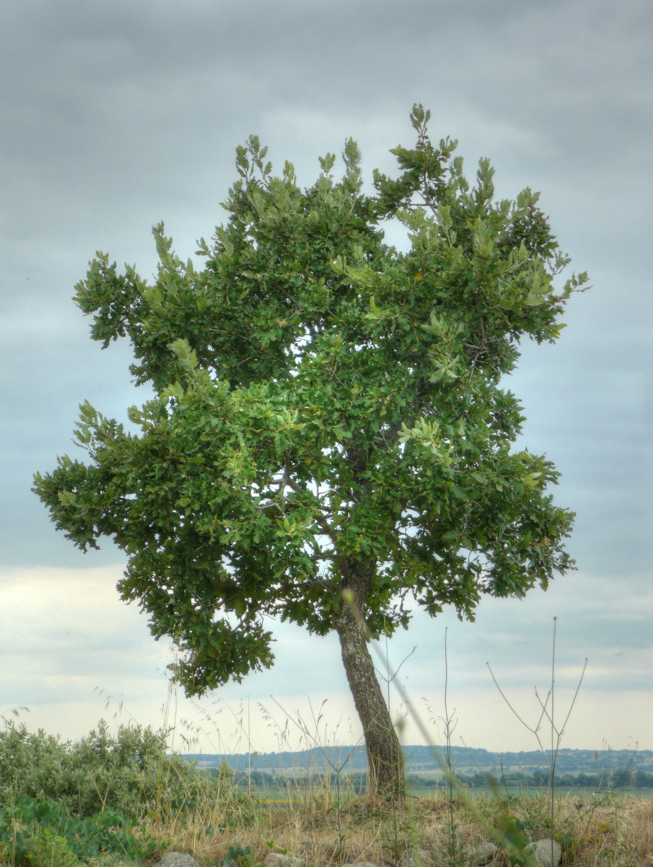 HDR Solitary Tree in Turkey